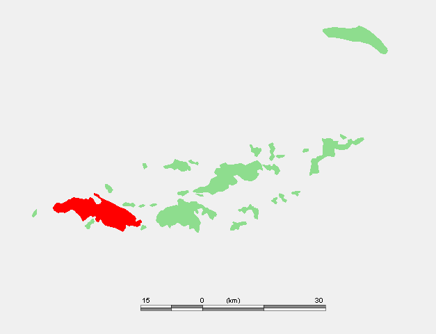 Locator map of Saint Thomas−St. Thomas island — in the United States Virgin Islands, the Caribbean.